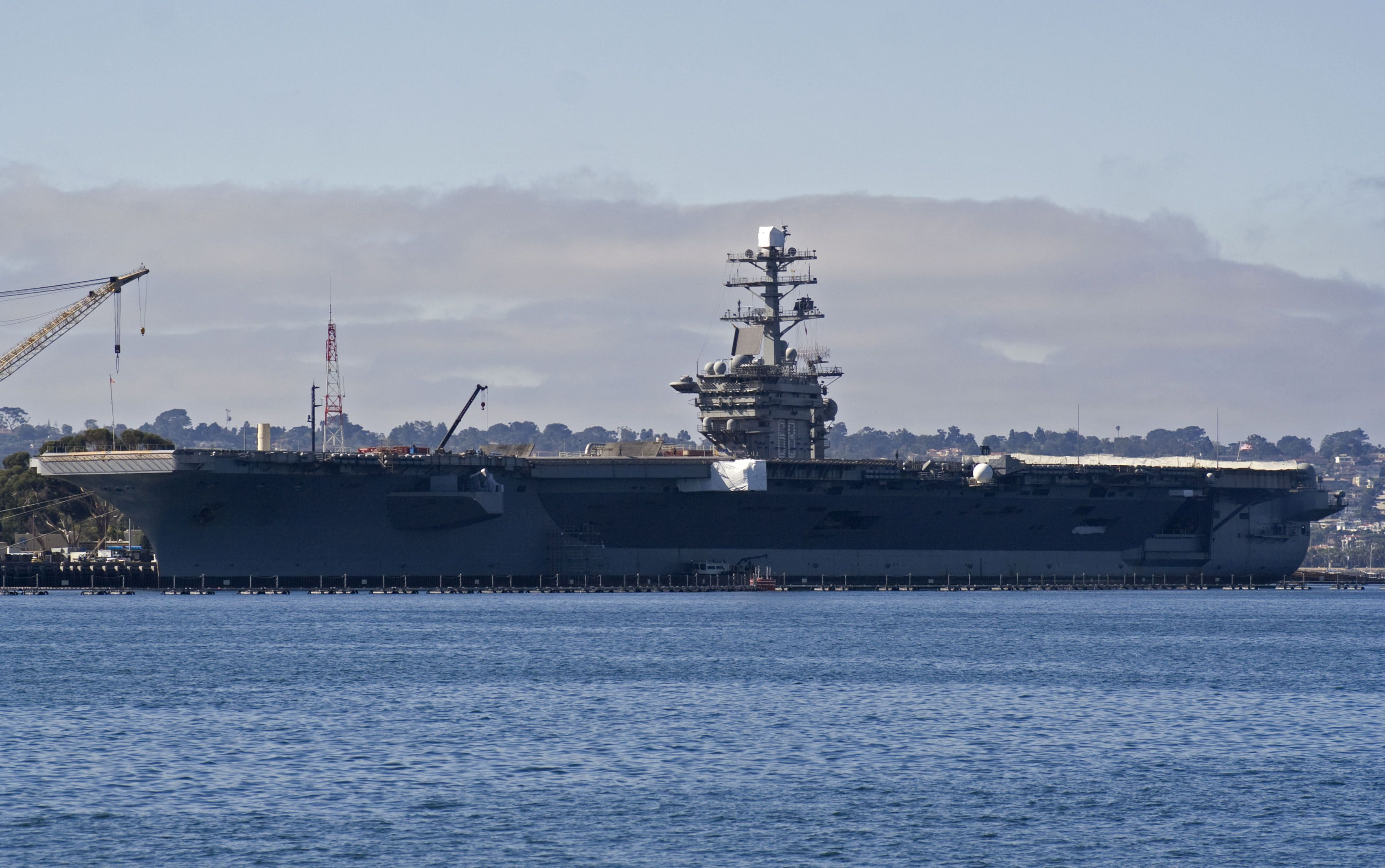 USS Nimitz in San Diego Bay (CA) USA